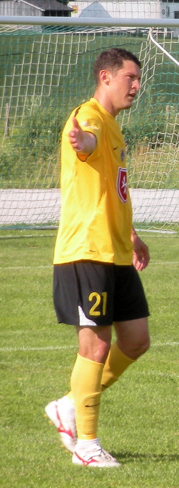 André Alves dos Santos as player of Videoton FC (Székesfehérvár) in a international pre-season friendly on 3 July 2010 against Universitatea Cluj from Romania in Gröbming (Styria / Austria)